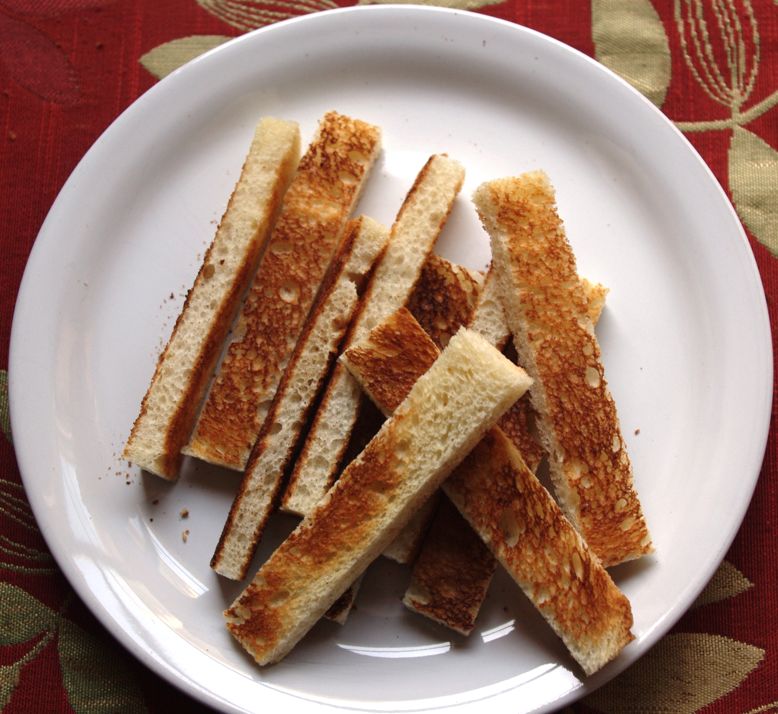 A soldier is a British term that refers to a piece of bread or toast cut into thin strips reminiscent of the formation of soldiers on parade. The toast is sliced in this manner so that it can be dipped into the opening of a soft boiled egg that has had the top of its shell removed.